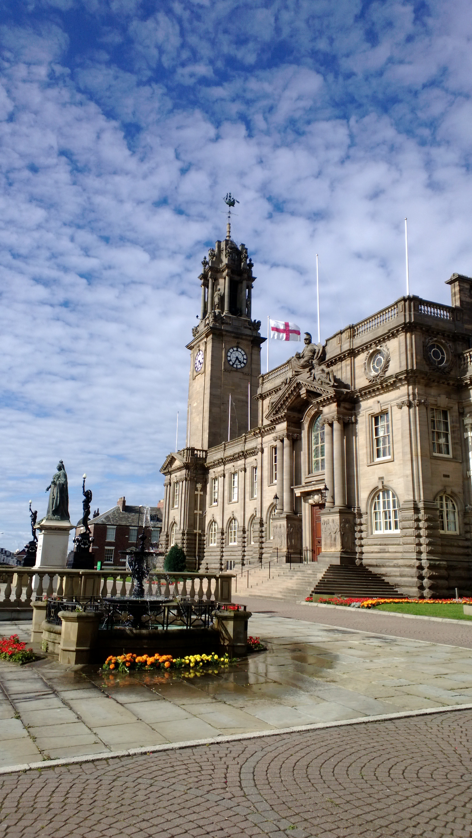 South Shields Town Hall, designed by E. Fetch and opened on 19th October 1910.